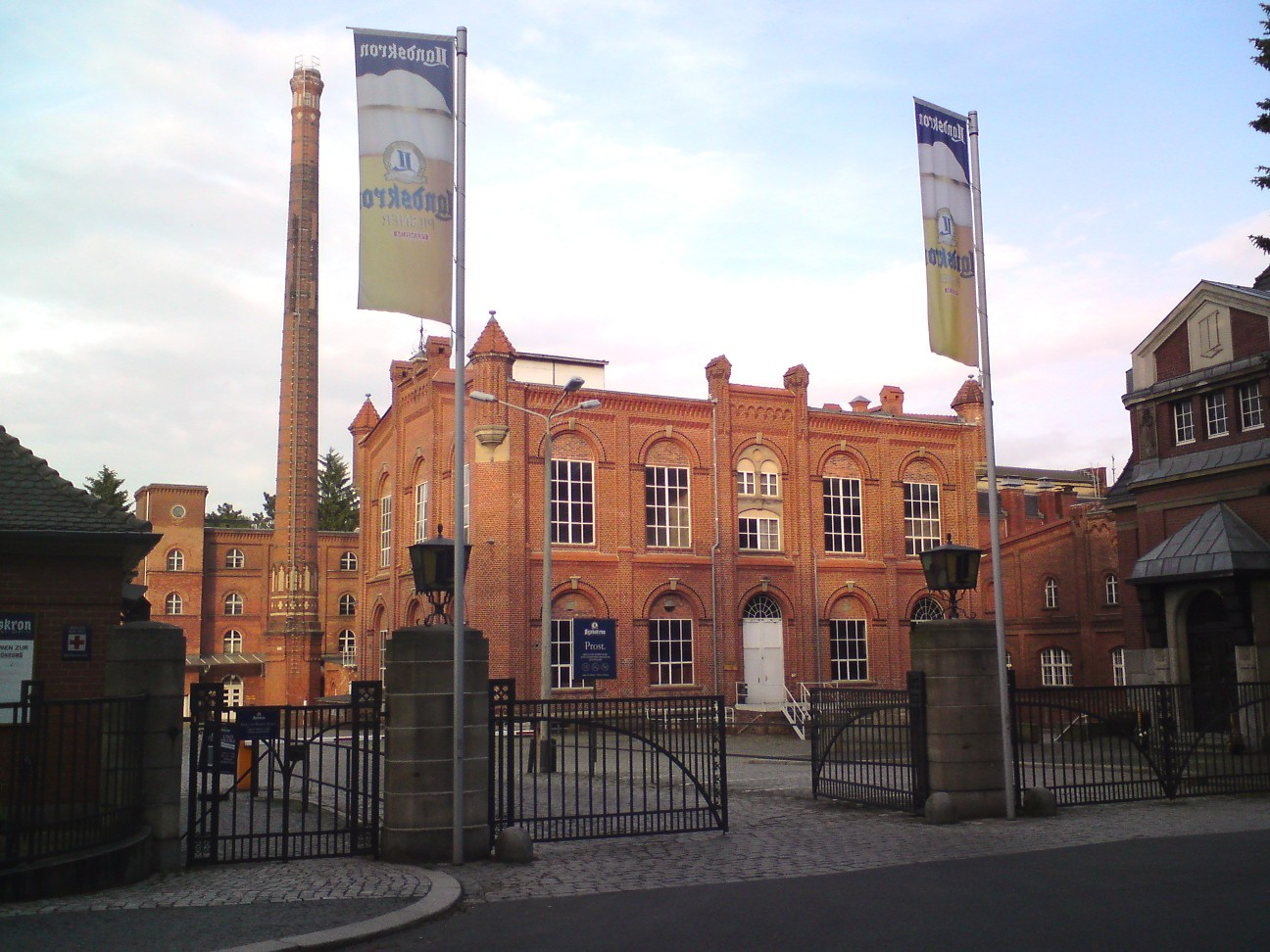 "Landsrkon" brewery in Görlitz, Saxony